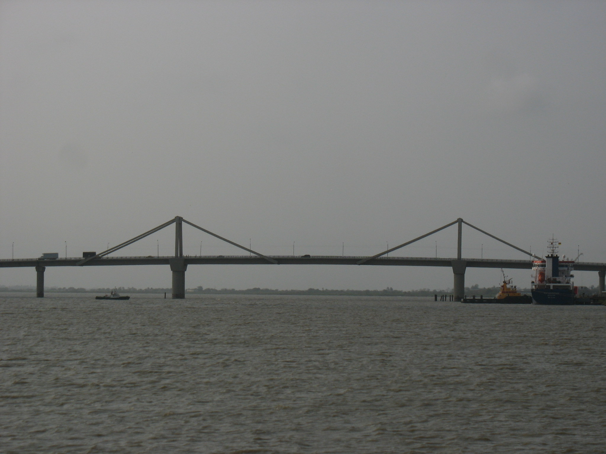 Pumarejo Bridge, Barranquilla, Colombia